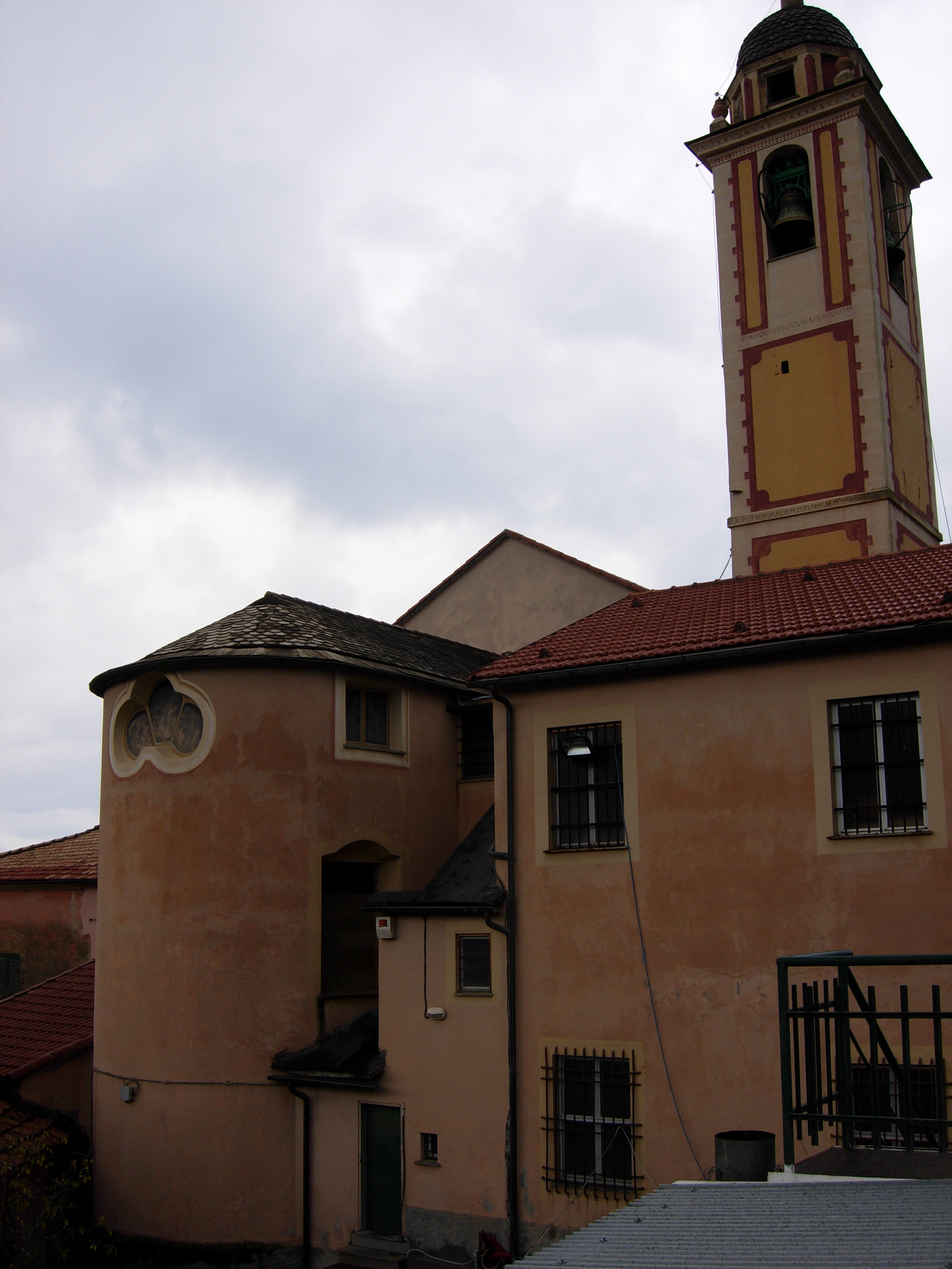 Apse of Santo Stefano del Ponte church in Sestri Levante.